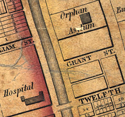 The current location of Music Hall was the location of an Orphan Asylum in 1838.